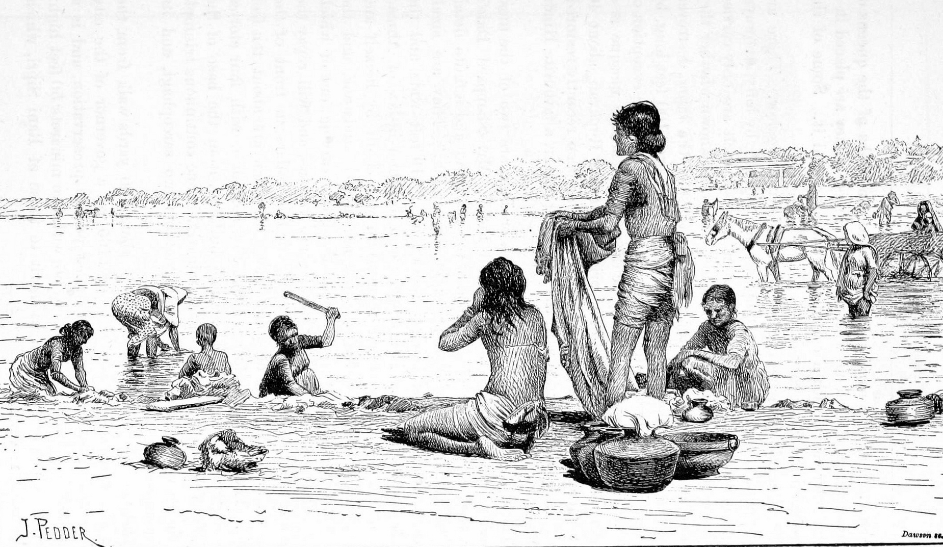 Image taken from: Title: "Picturesque India. A handbook for European travellers, etc. [With maps.]" Author: CAINE, William Sproston. Shelfmark: "British Library HMNTS 010057.ee.7.", "British Library OC ORW.1986.a.2996" Page: 101 Place of Publishing: London Date of Publishing: 1890 Publisher: G. Routledge & Sons Issuance: monographic Identifier: 000567709 Note: The colours, contrast and appearance of these illustrations are unlikely to be true to life. They are derived from scanned images that have been enhanced for machine interpretation and have been altered from their originals. If you wish to purchase a high quality copy of the page that this image is drawn from, please order it here. Please note that you will need to enter details from the above list - such as the shelfmark, the page, the book's volume and so on - when filling out your order. Explore: Find this item in the British Library catalogue, 'Explore'. Open the page in the British Library's itemViewer (page: 101) Download the PDF for this book Click here to see all the illustrations in this book and click here to browse other illustrations published in books in the same year. Please click on the tags shown on the right-hand side for other ways to browse the illustrations.